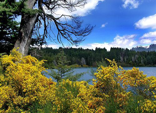 brooms in the Victorian Island, Lago Nahuel Huapi, Argentina